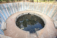 Khazana well about 6 Km south of Beed city, India. It was built in 1583 by Salabat Khan.